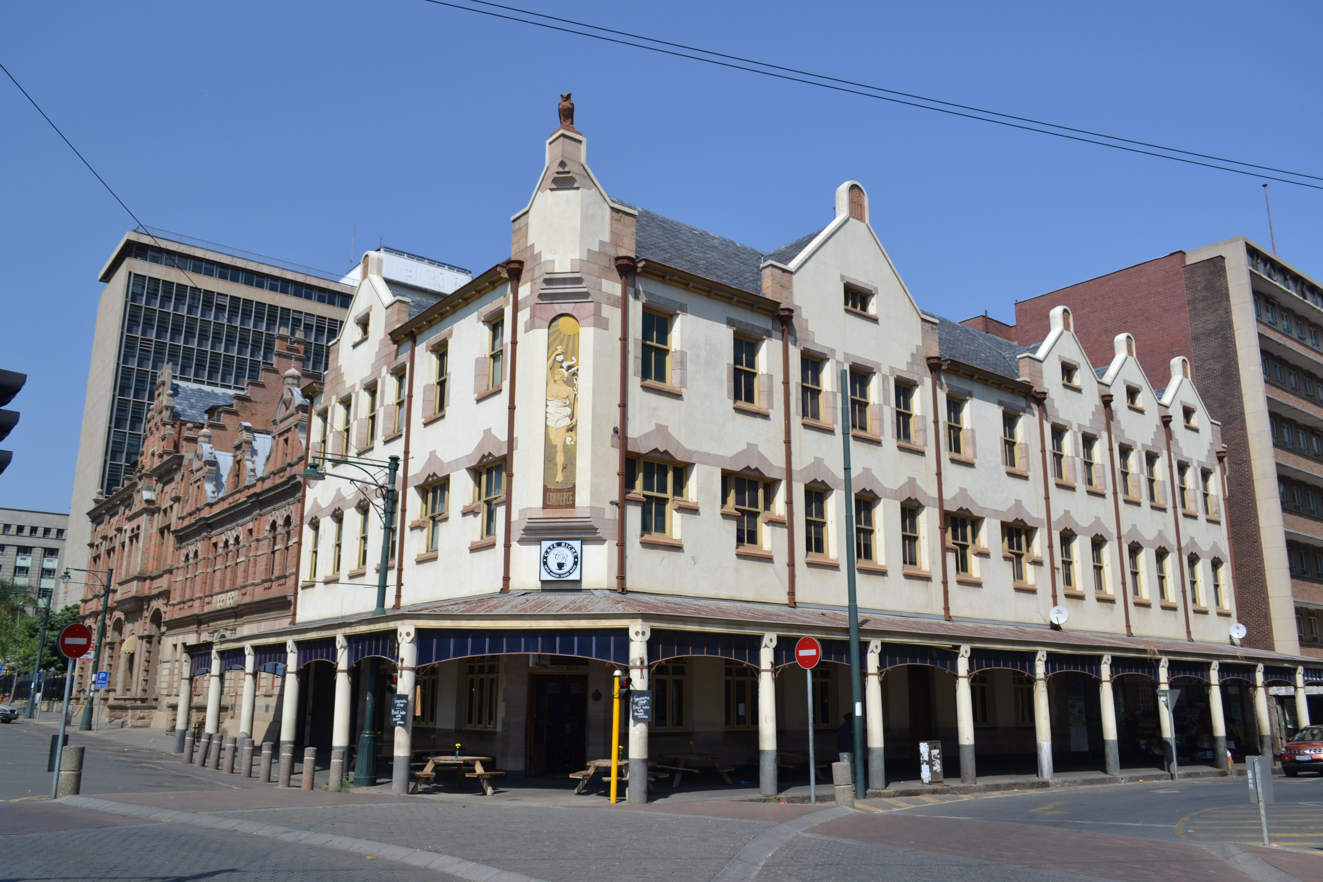 Cafe Riche Church Square Pretoria This media shows a South African Protected Site with SAHRA file reference 9/2/258/0012 .